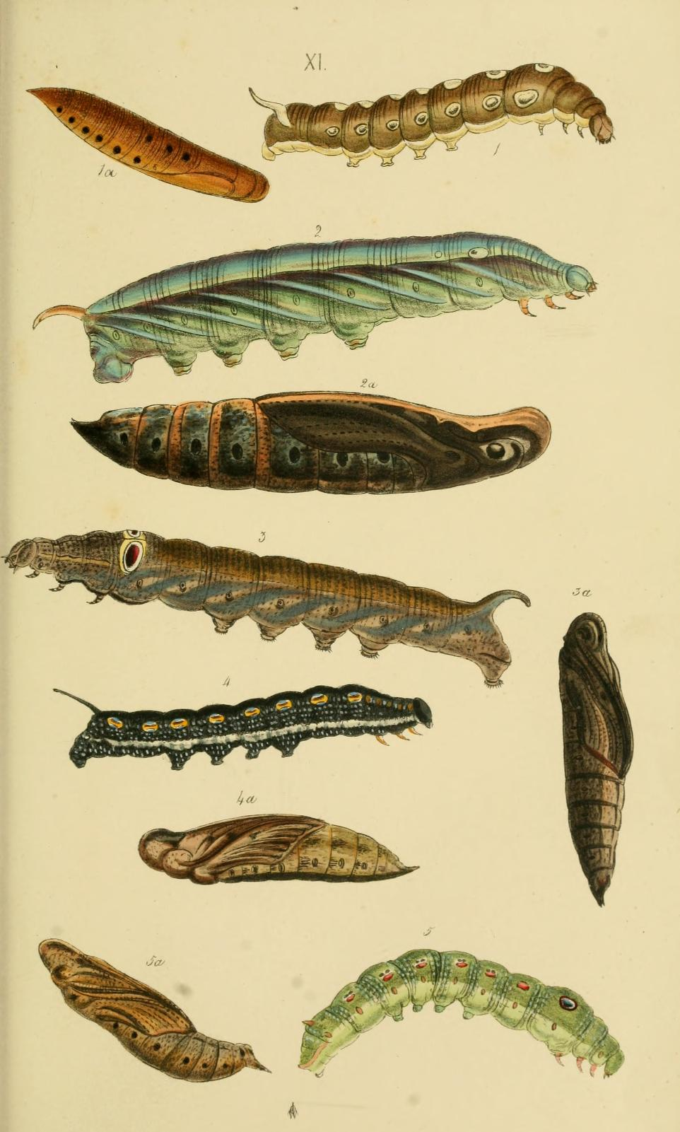 Thomas Horsfield and Frederic Moore. A catalogue of the lepidopterous insects in the Museum of the Hon. East-India Company. Alternative Title:Catalogue of the lepidopterous insects in the Museum of Natural History at the East-India House. Multiple dates 1857 - 1859; 1857-1859. Plate XI text figure 1 Chaerocampa celerio synonym for Hippotion celerio (Linnaeus, 1758) 1 larva, 1a pupa figure 2 Chaerocampa nessus synonym for Theretra nessus (Drury, 1773) 2 larva, 2a pupa figure 3 incorrect attribution for Chaerocampa lucasi Walker, 1856 synonym for Theretra latreillii lucasii (Walker, 1856) 3 larva, 3a pupa figure 4 Chaerocampa oldenlandiae synonym for Theretra oldenlandiae (Fabricius, 1775) 4 larva, 4a pupa figure 5 Chaerocampa bisecta Moore, 1858 synonym for Theretra silhetensis (Walker, 1856) 5 larva, 5a pupa